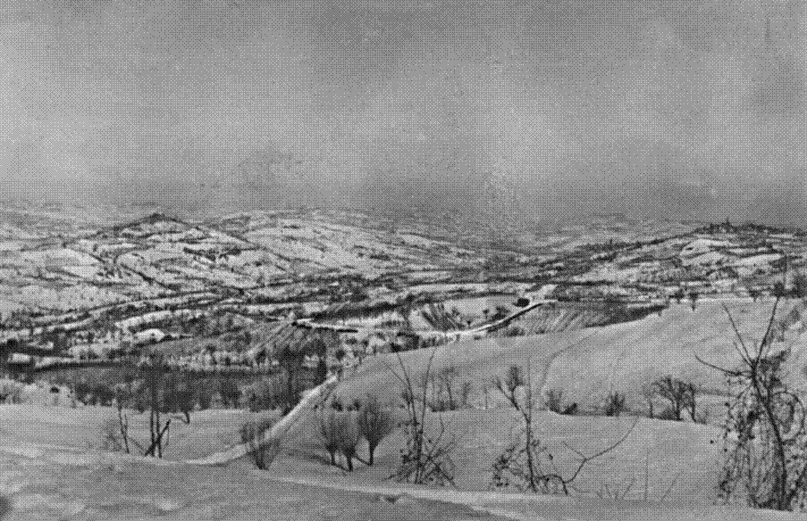 The theater of the "Battle of the Ashes" photographed by "Fusco" shortly after the battle.